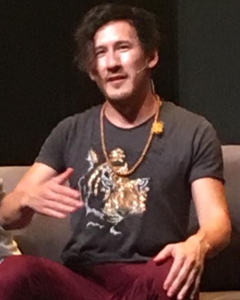 Markiplier responding to questions during his You're Welcome Tour in Rosemont, Illinois in 2017